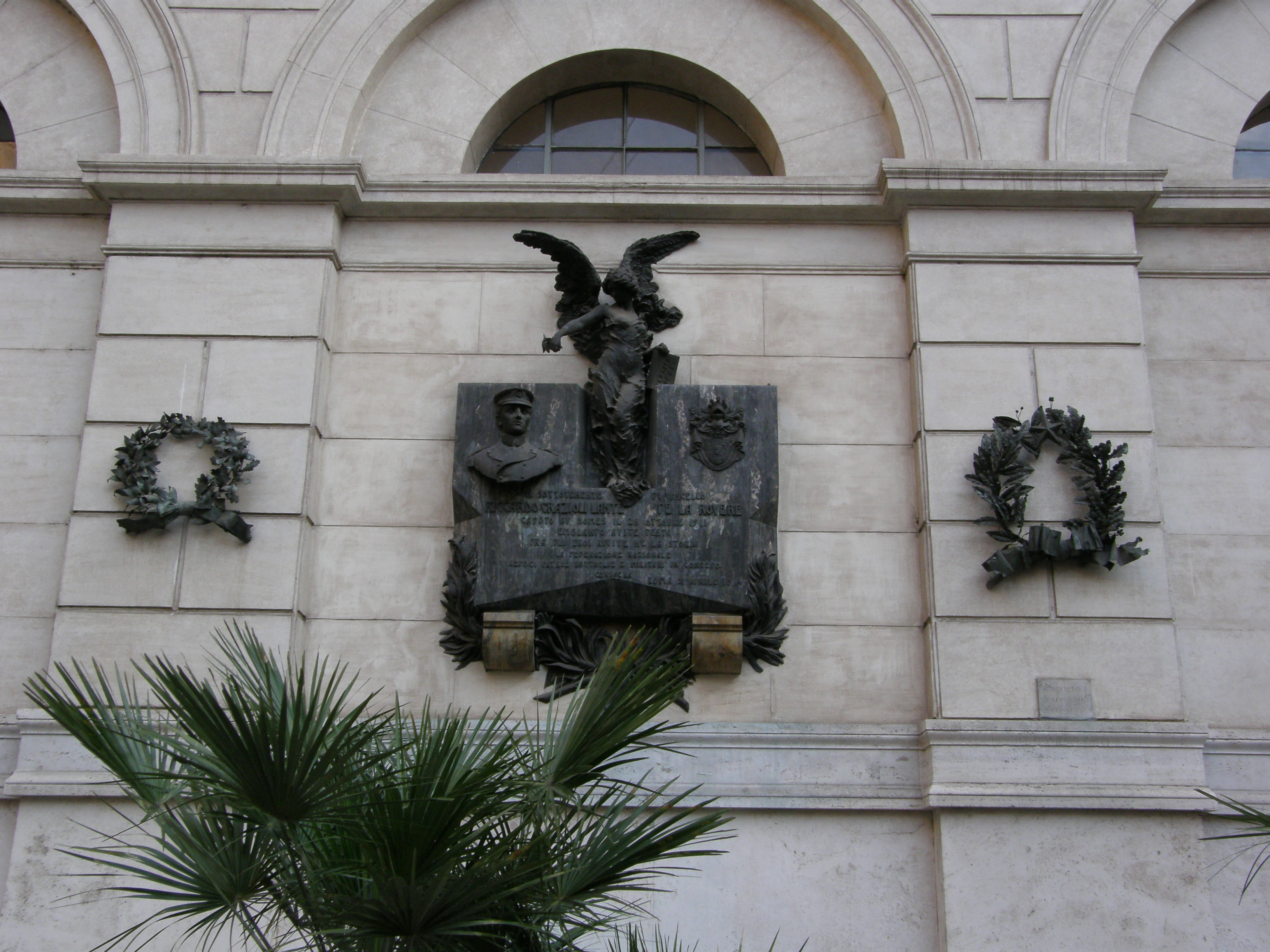 Rome, Italy - Plaque devoted to Riccardo Grazioli Lante della Rovere in Piazza Grazioli, near Piazza Venezia